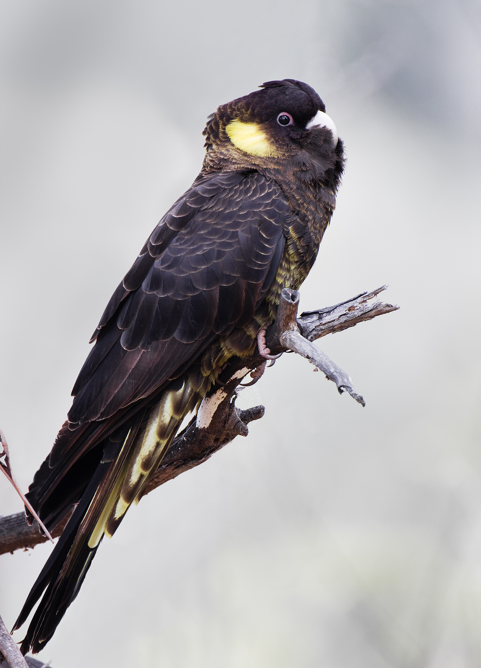 An immature male Yellow-tailed Black Cockatoo on Bruny Island, Tasmania, Australia. It has got a pale beak suggesting that it is less than about two years old. Its pink/red eye-rings indicate that it is a male.